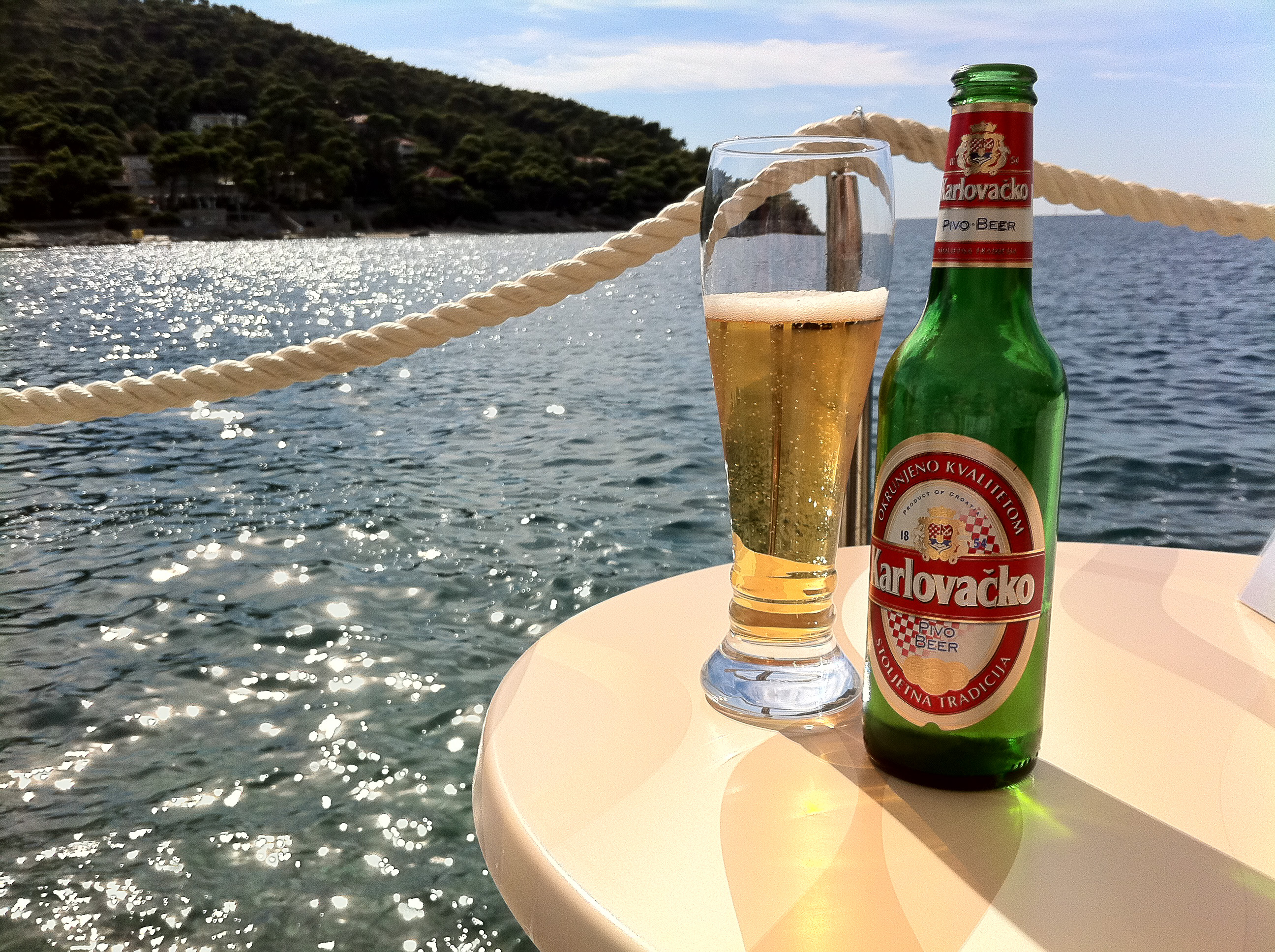 Having a drink outside the Cave Bar at the Hotel More - Karlovačko Dubrovnik, Croatia.